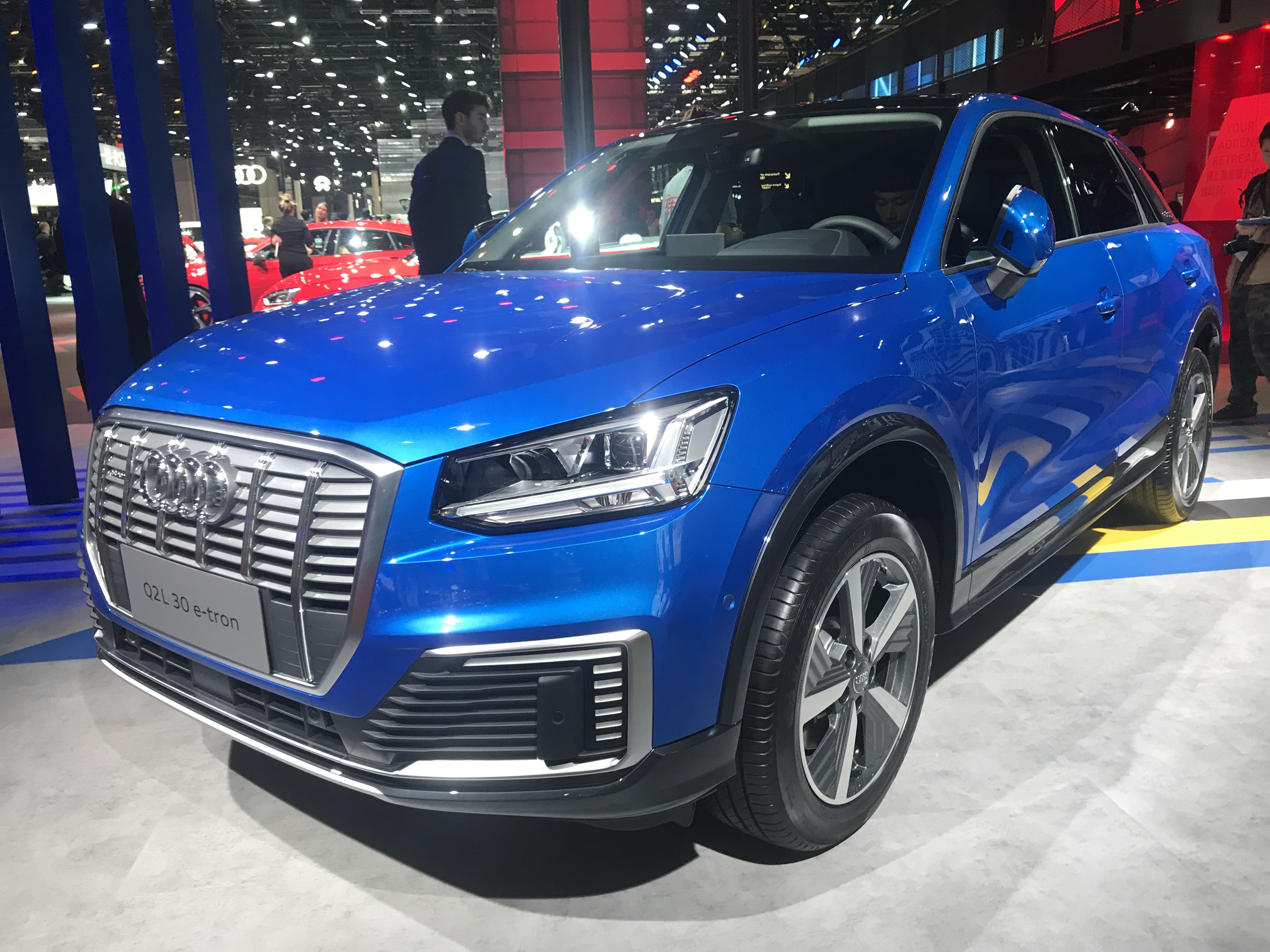 Audi Q2L e-tron front